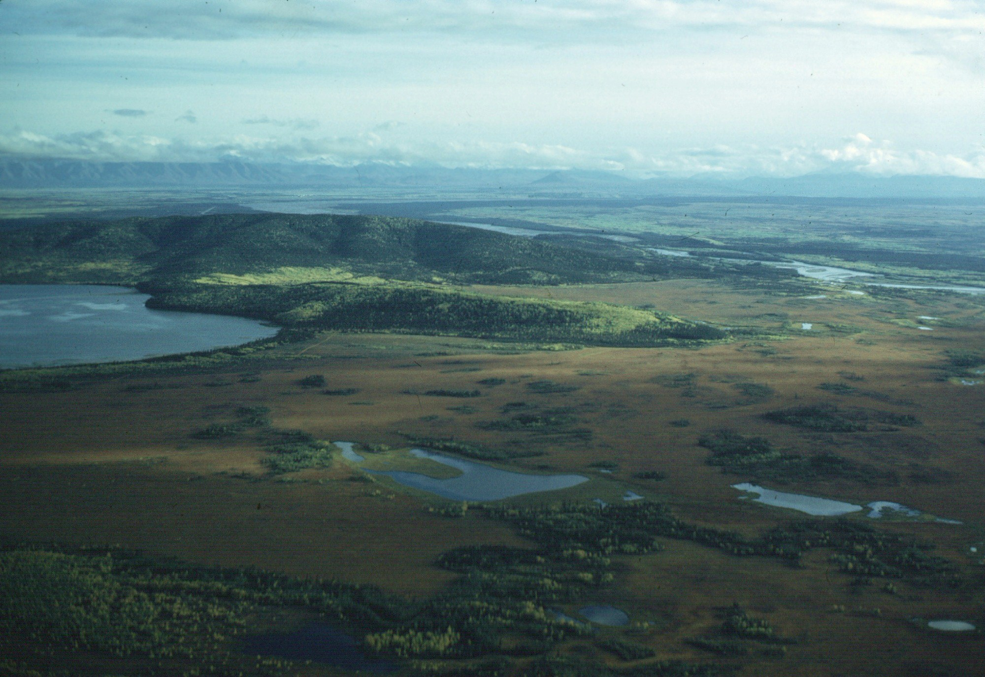 aerial shot of fall colors near Big Delta, interior Alaska